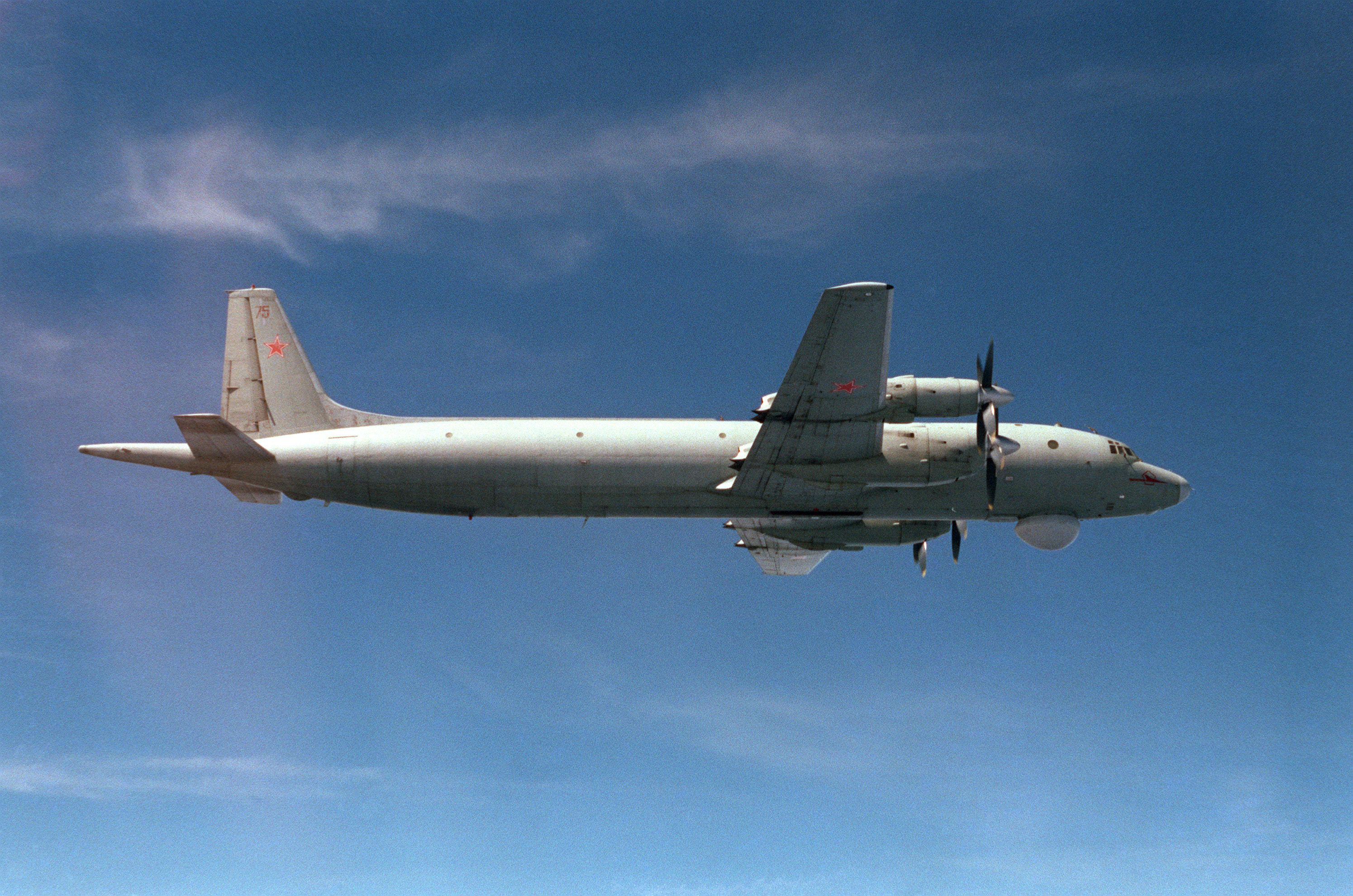 A Soviet Ilyushin Il-38 (NATO reporting name: "May") maritime patrol and anti-submarine warfare aircraft photographed from below on 20 April 1987.